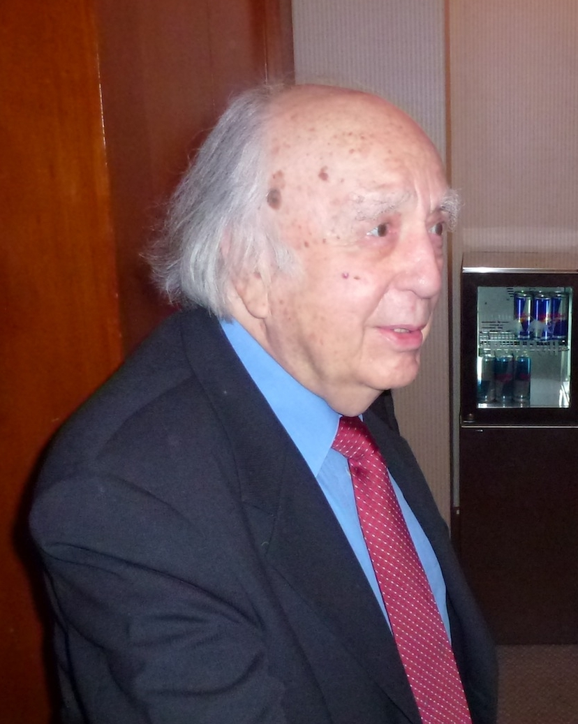 Honorary President of EDEK Vassos Lyssarides